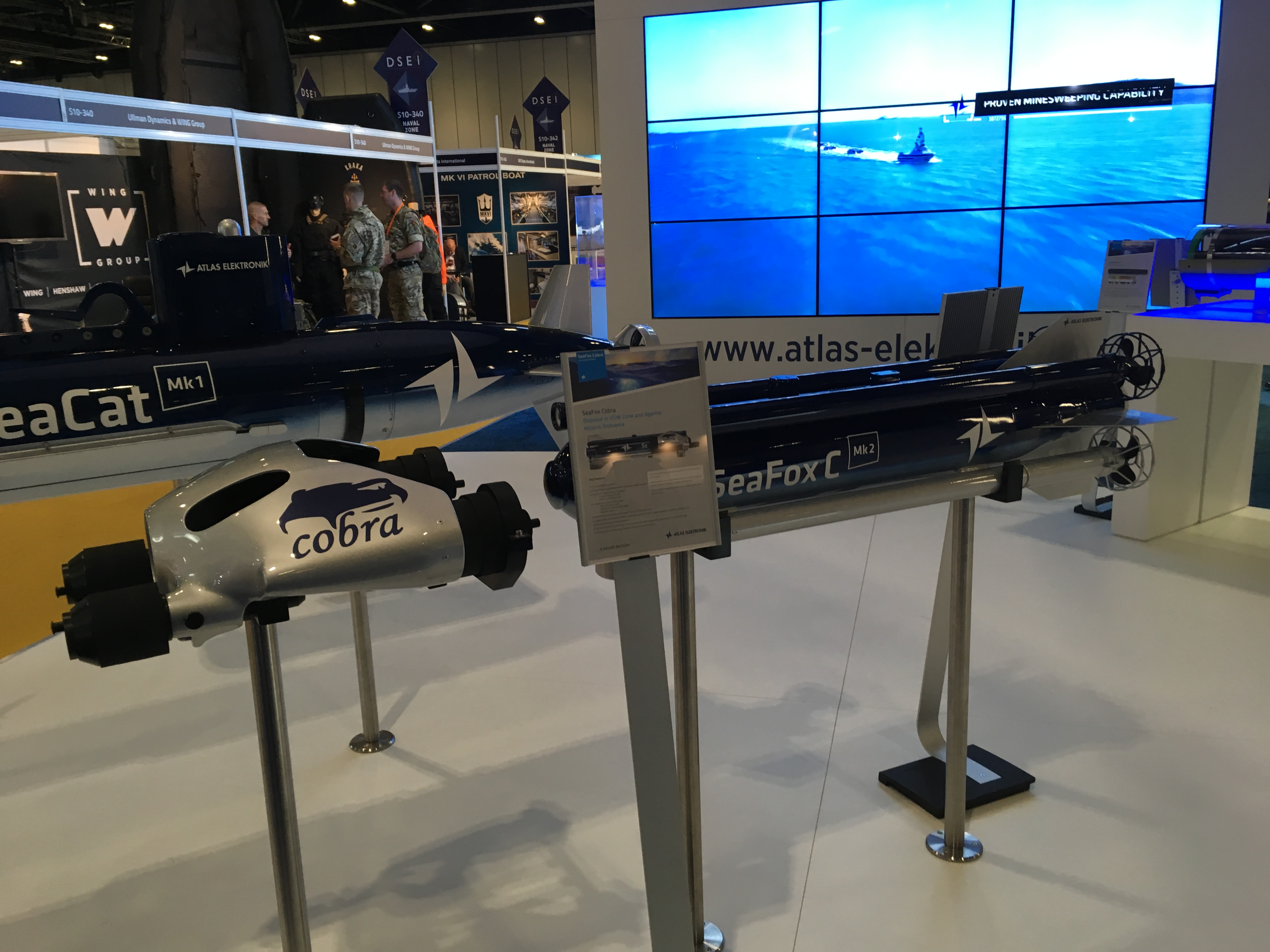 SeaFoxC Mk2, Atlas Elektronik, DSEI-2019, 12 September 2019, ExCel, London